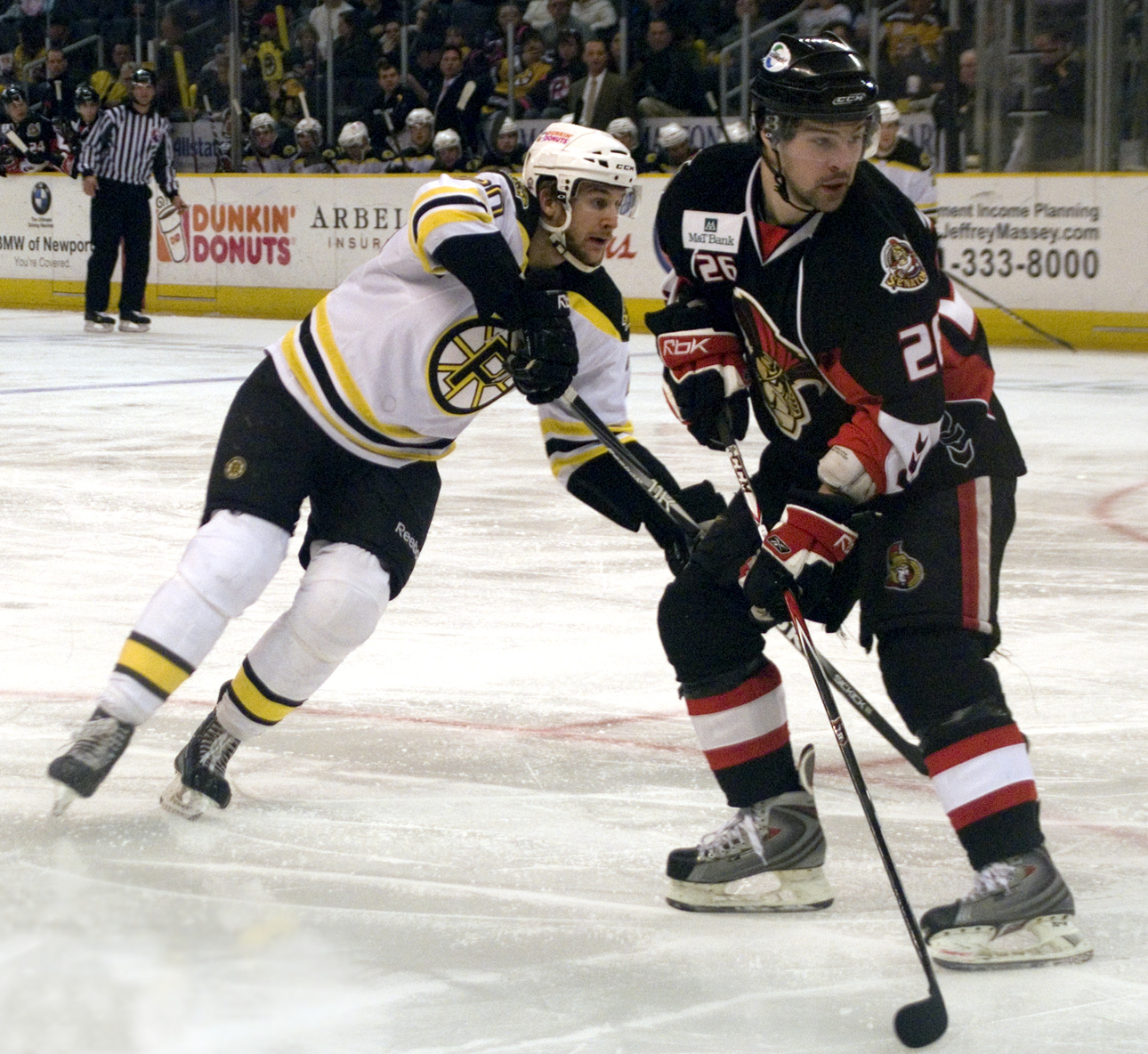 pbruinsbsens55 Photo taken on January 9, 2011 by Sarah Connors. This photo also appears in sarah_connors' Flickr photostream B-Sens @ Providence, 1/9/11 (Set: 174) Flickr Tags: bruins pbruins ahl nhl senators ottawa senators Binghamton senators Boston bruins providence bruins icehockey hockey